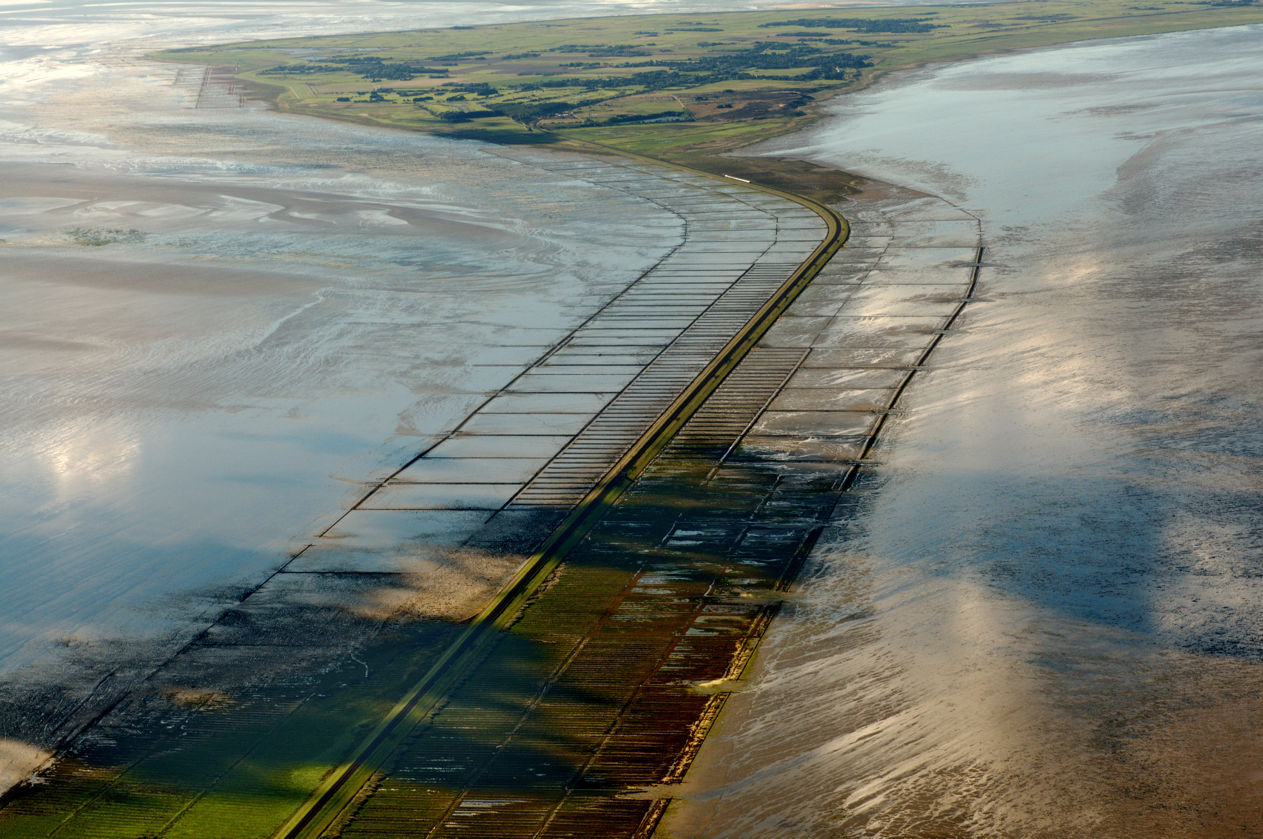 Hindenburgdamm to isle Sylt, Germany